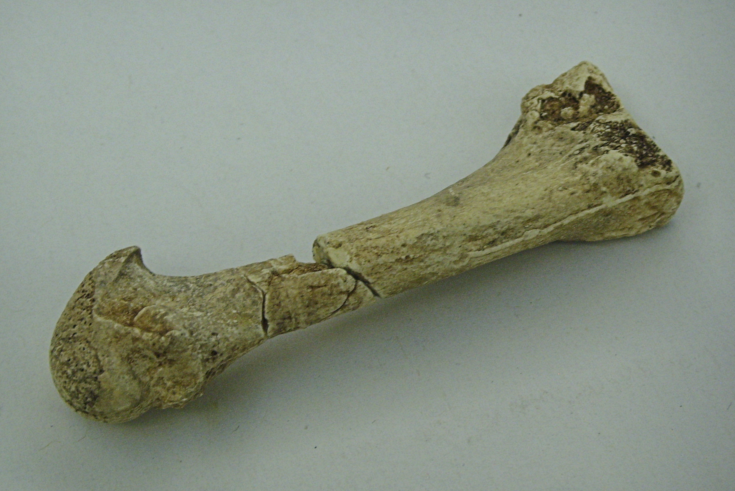 Metatarsal bone of the big toe of "Ardi" (cast)